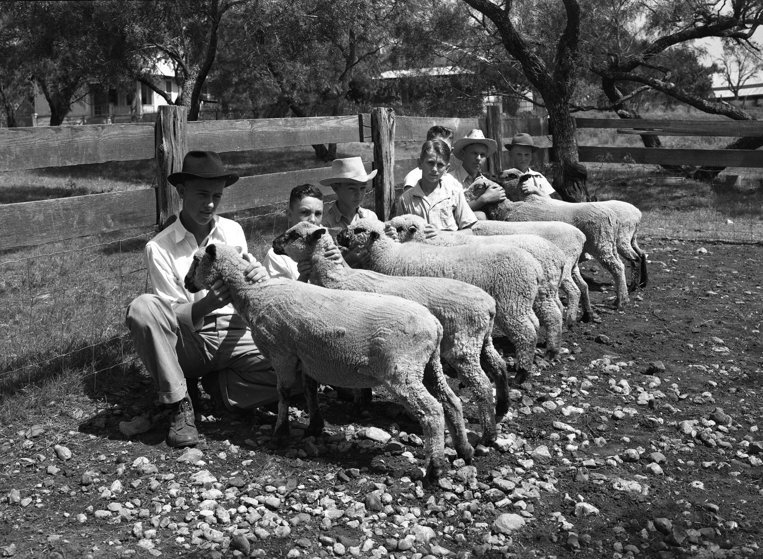 Title: 4-H Club Boys with Shopshire Shee, 1940. From Texas A&M University Archives